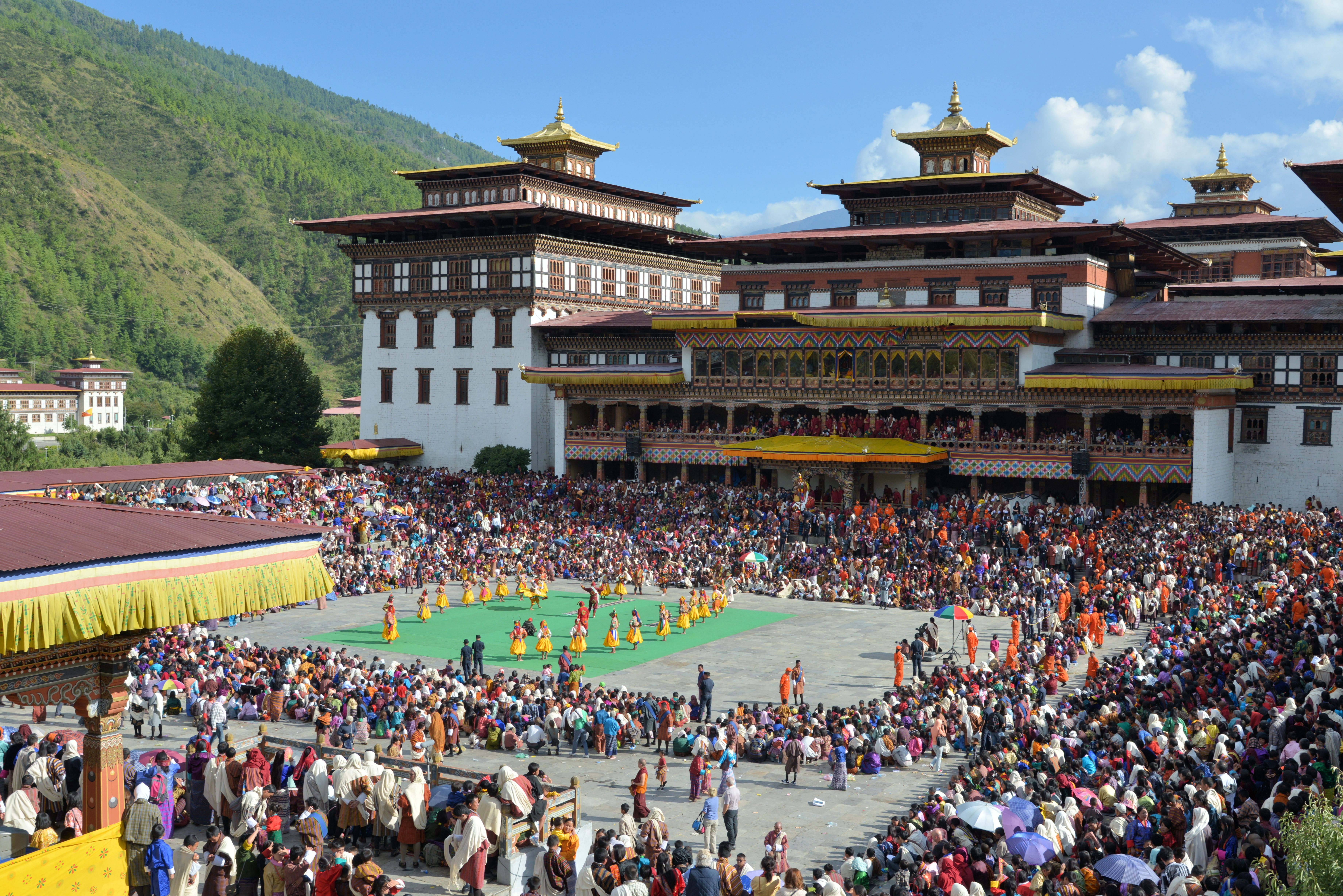 A view of the Tsechu festival at Tashichodzong in Thimphu.